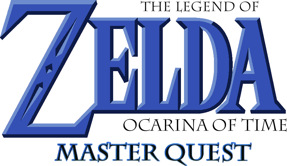 Logotype of The Legend of Zelda: Ocarina of Time - Master Quest. The text that reads "Master Quest" is usually yellow but is changed to black here for the sake of visibility.